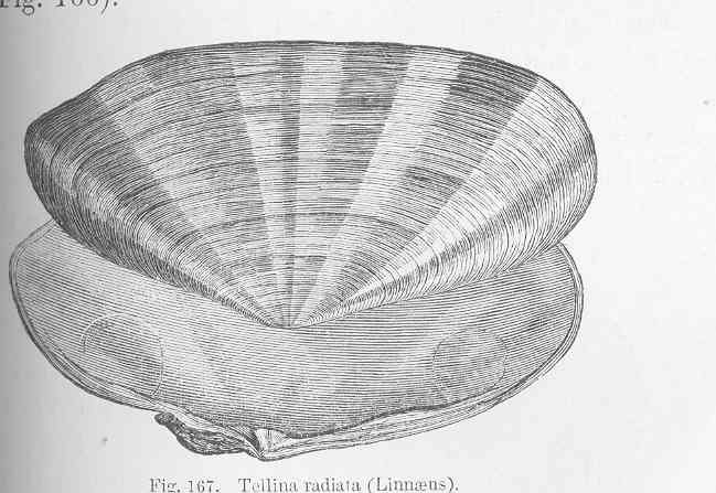 Tellina radiata (Linnaeus) Subject: Clams, Tellina Tag: Shellfish